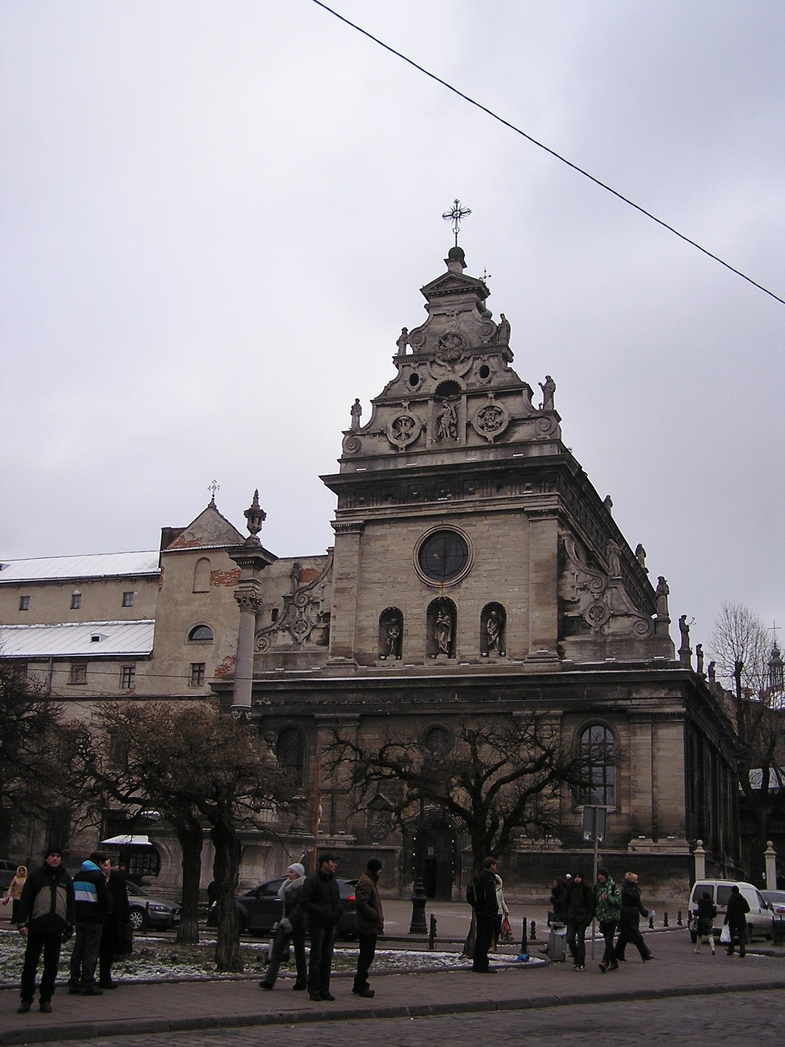 Lviv